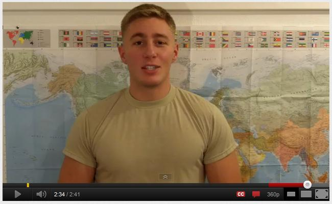 Randy Phillips speaking on YouTube